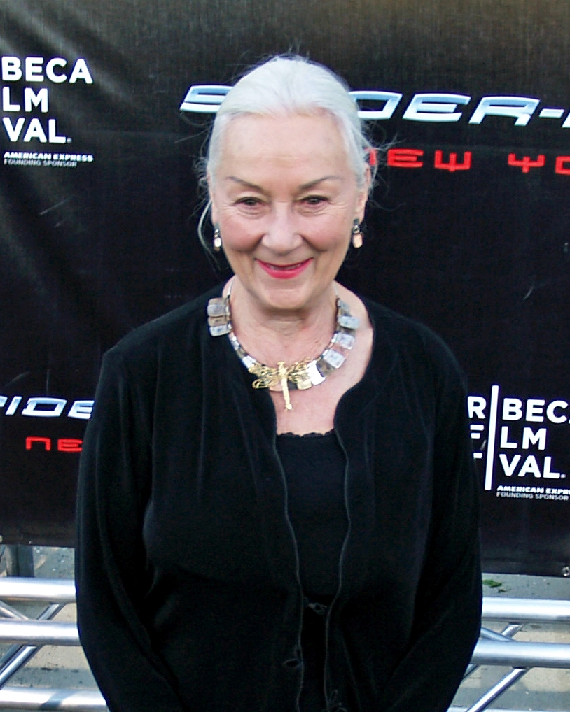 Rosemary Harris at the 2007 Tribeca Film Festival premiere of Spider-Man 3.